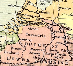 Map showing the area historically known as Toxandria (an area in Belgium and the Netherlands). The whole original map shows Central Europe (919-1125).